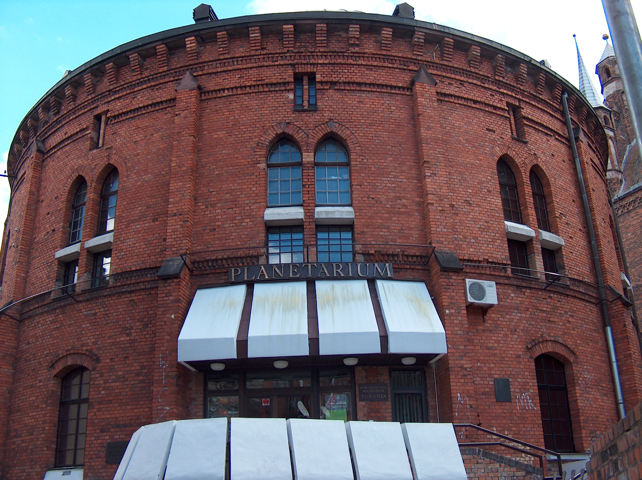 The Planetarium (former gas tank) in Torun, Poland